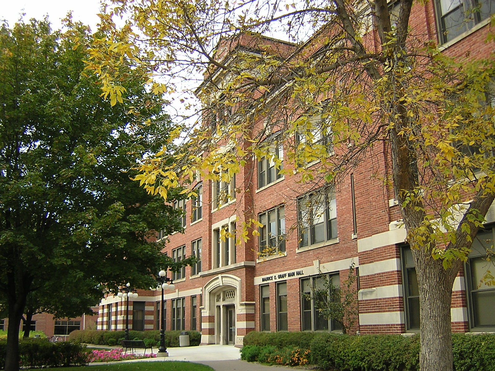 Main Hall, University of Winconsin-La Crosse